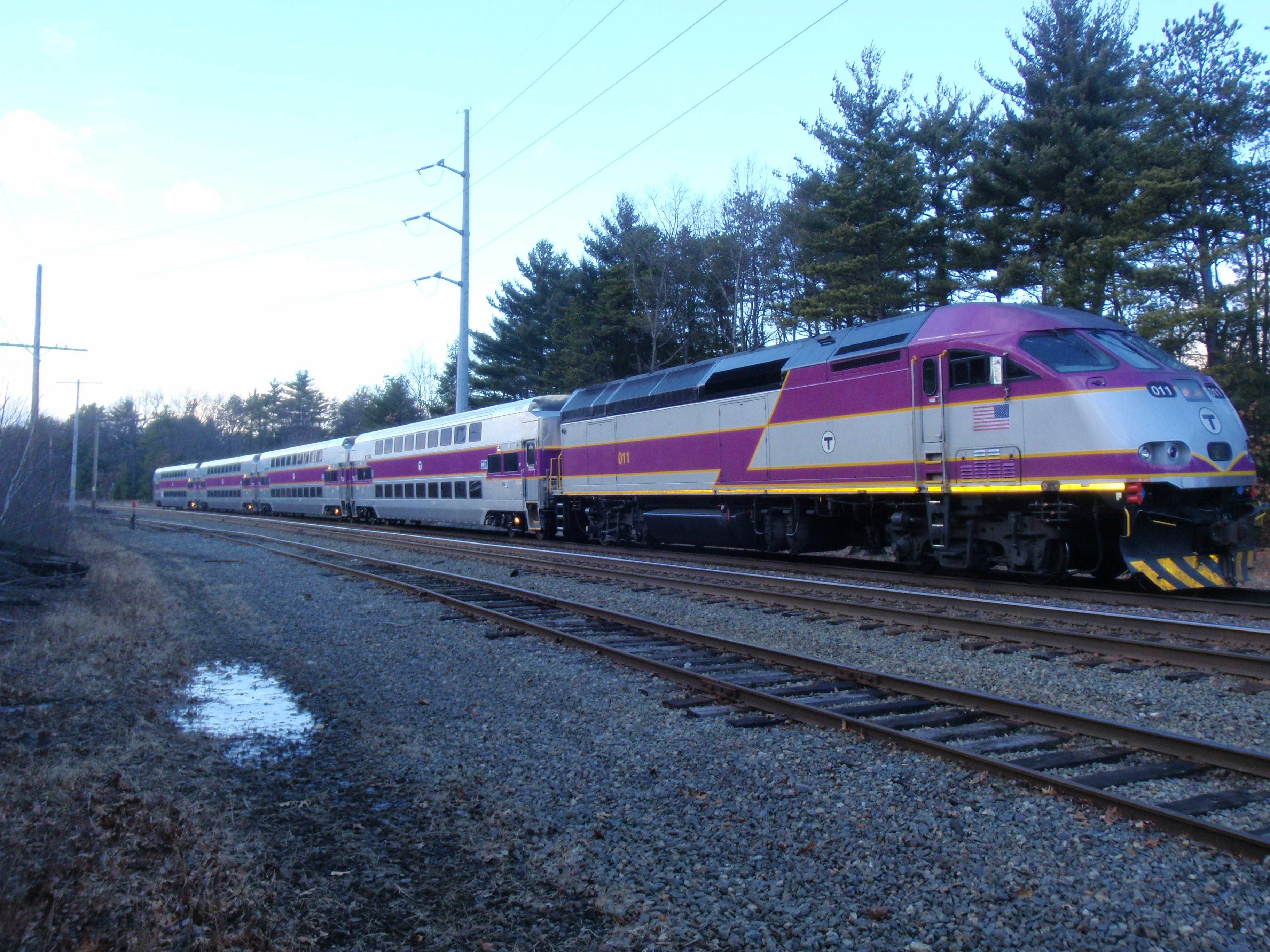 New MBTA Commuter Rail coaches being tested in December 2012